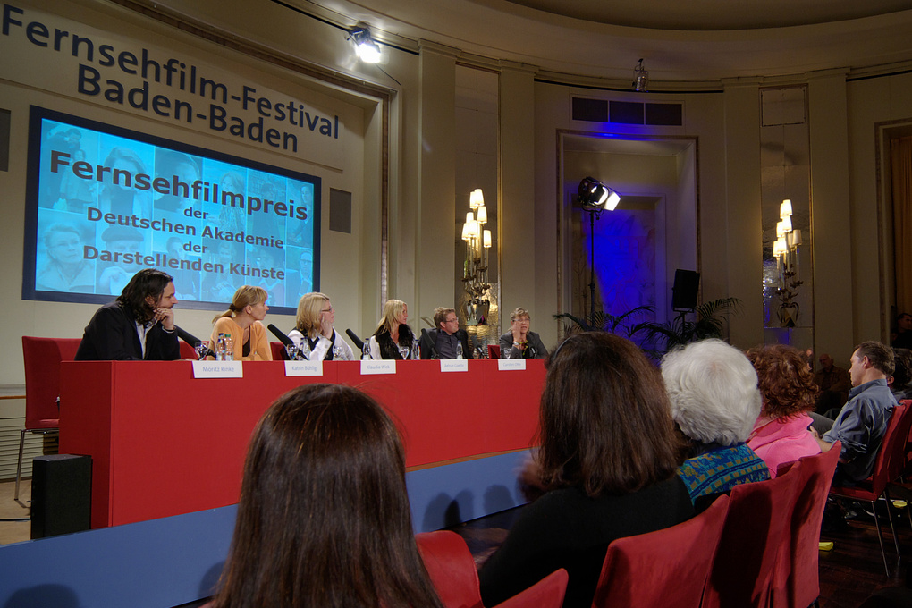 The jury at Baden-Baden TV Film Festival 2009